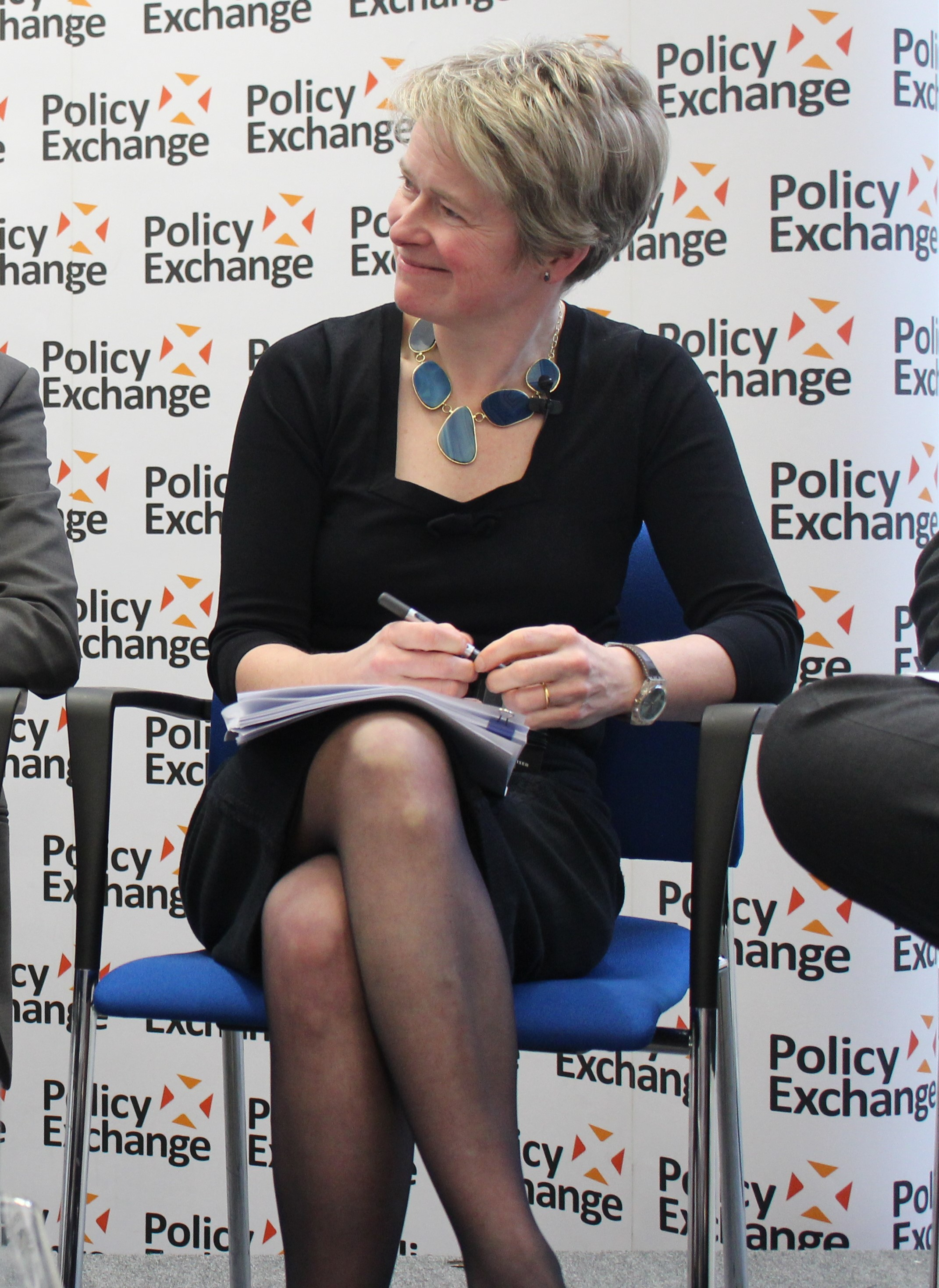 Diana Mary "Dido" Harding